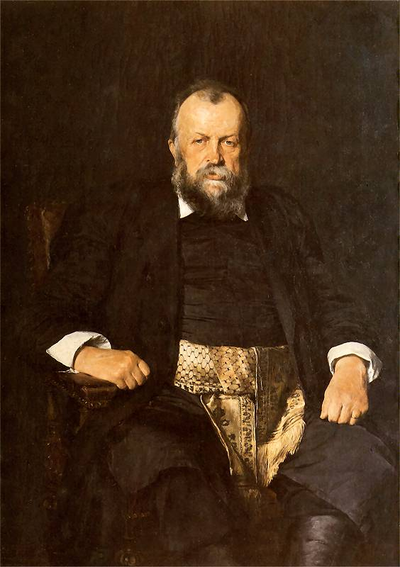 Portrait of Włodzimierz Dzieduszycki